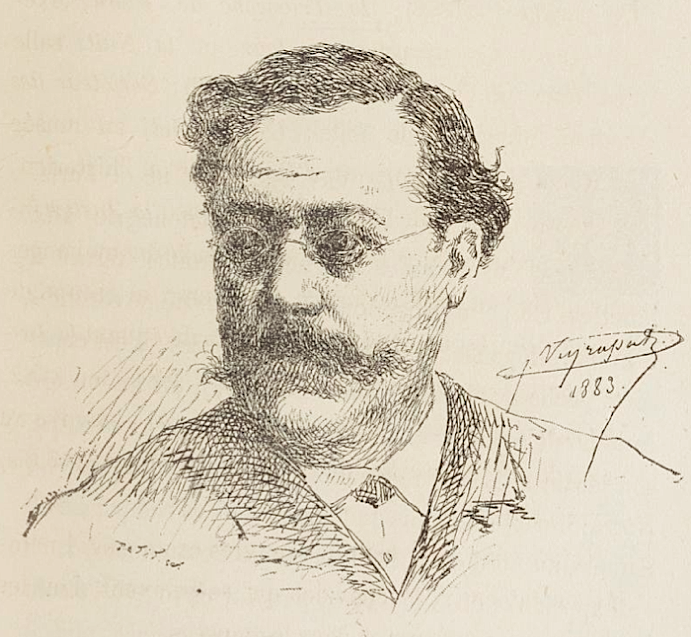 Selfportrait of Veyrassat, sketch.